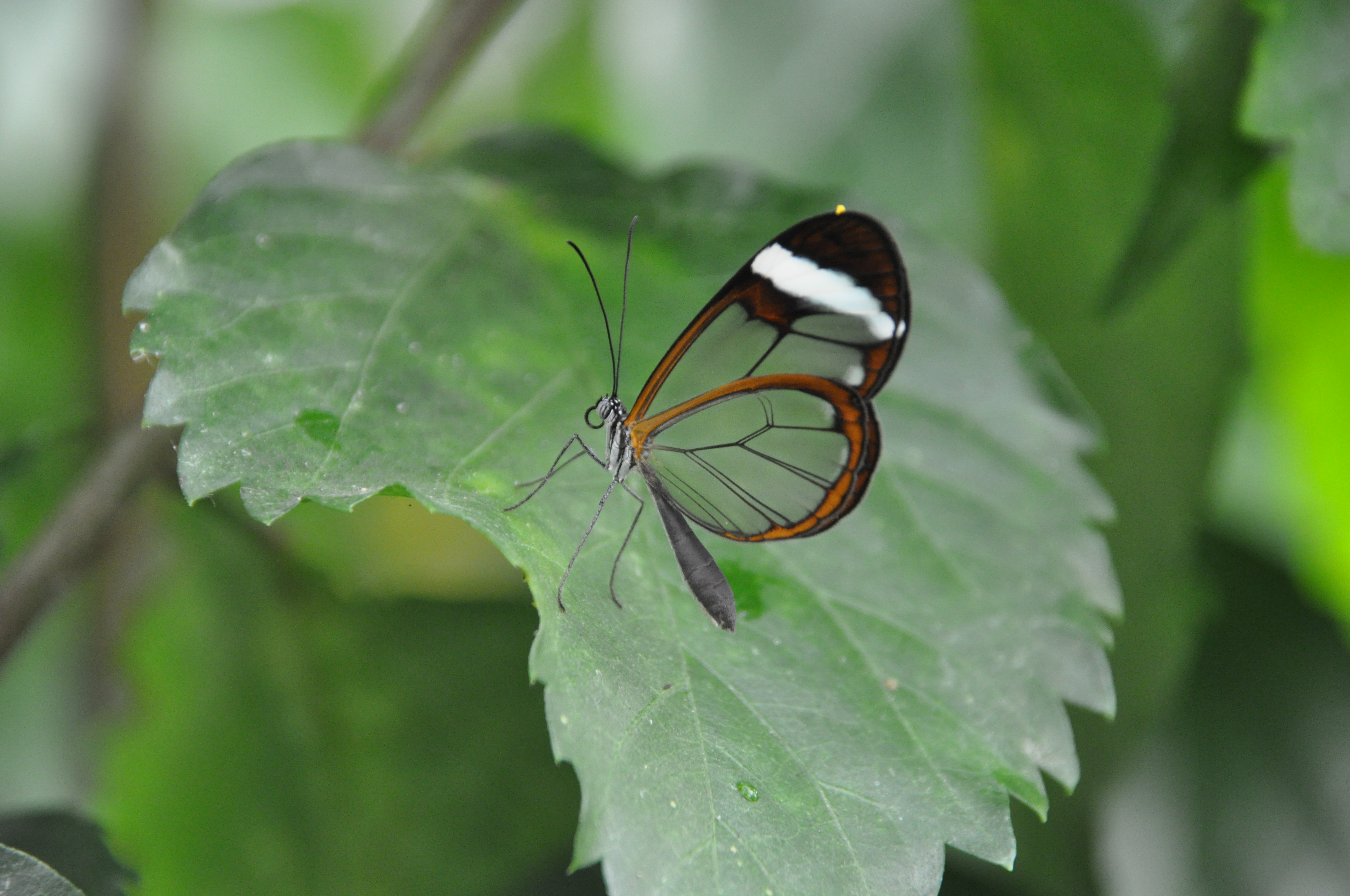 Glasswing (Greta oto)